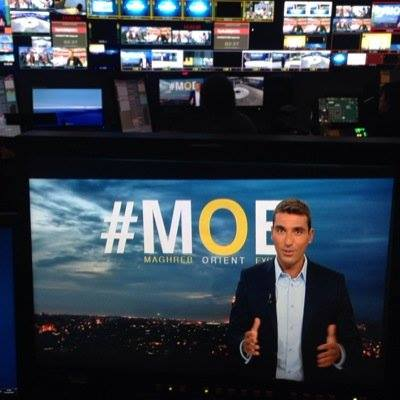 Mohamed Kaci/MOE